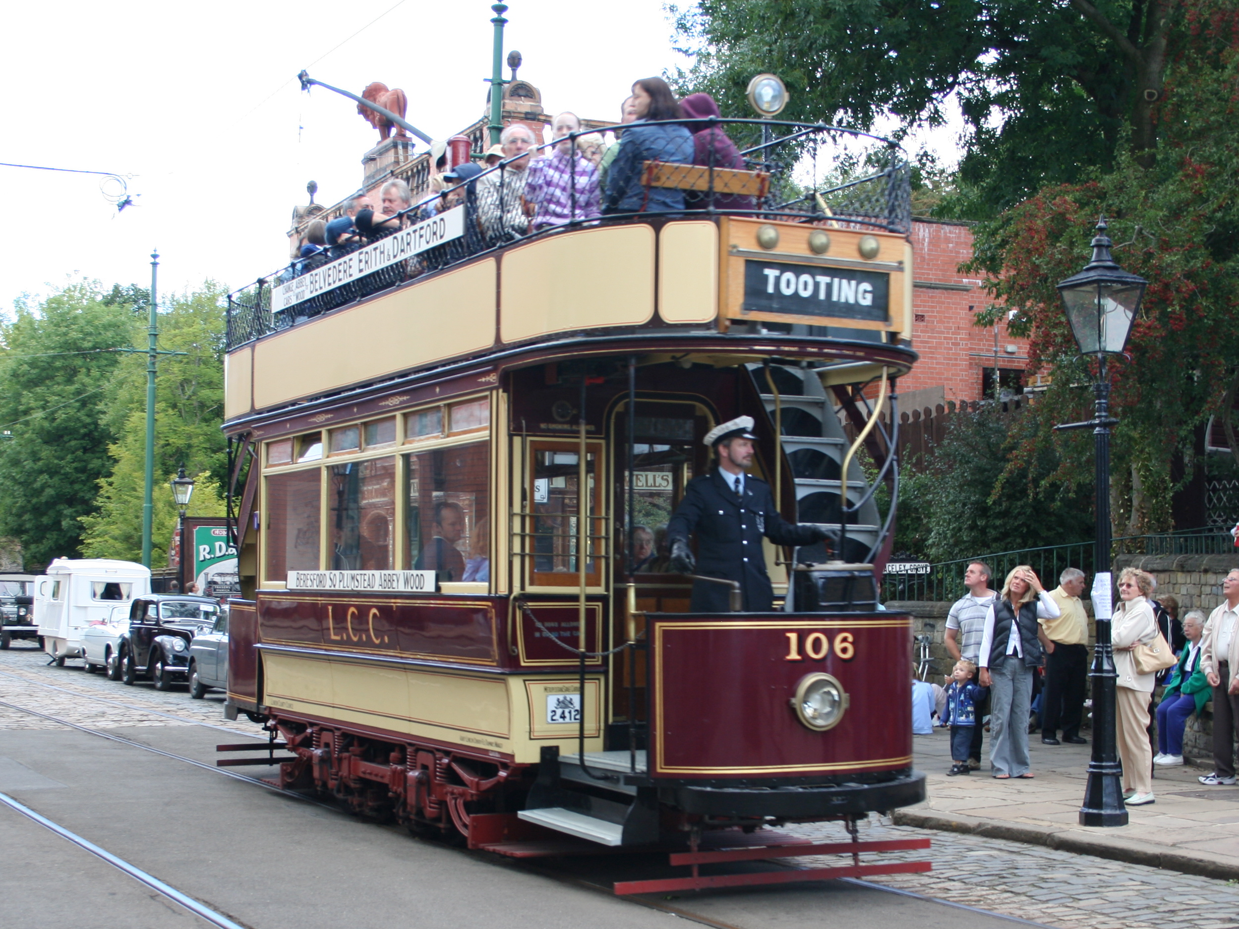 Crich Tramway Museum Extravaganza